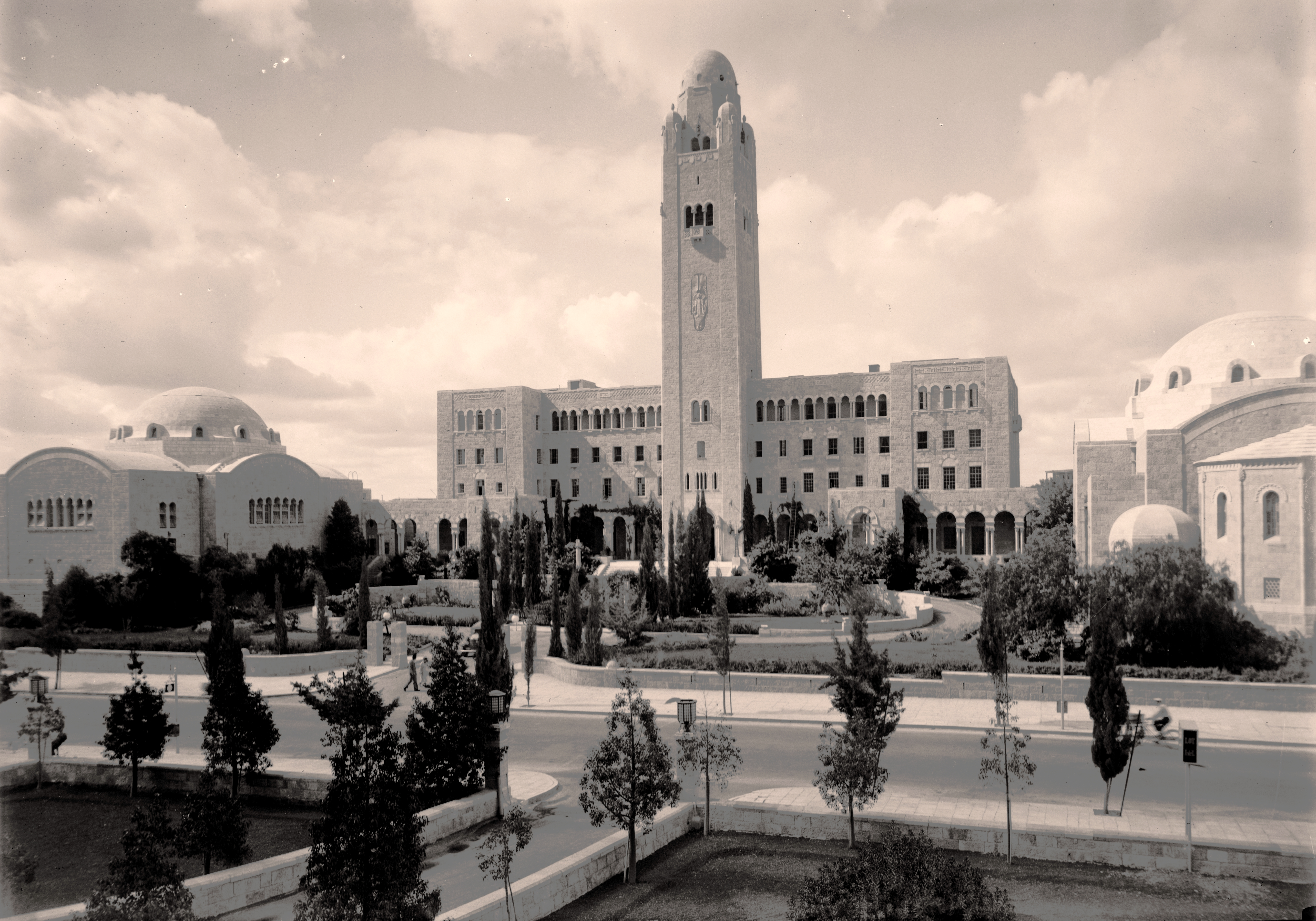 Y.M.C.A. building.